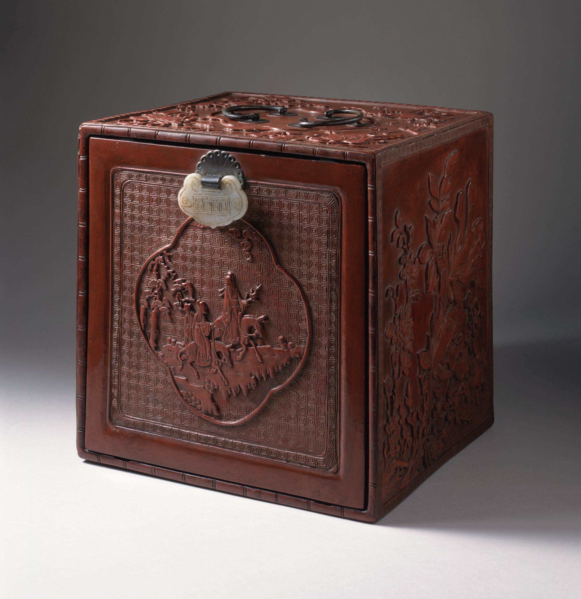 Ryukyu Islands, about 1750-1800 Furnishings; Furniture Carved red lacquer on wood core (kamakurabori in Japanese) with metal fittings and jade lock Gift of Mr. Ernest F. and Mrs. Mae R. Roberson (M.80.153)